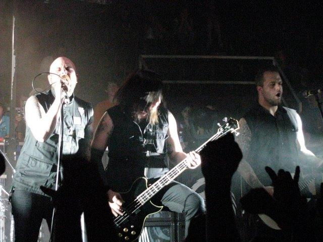 Christian metal band Demon Hunter performing at Red Letter Rock Fest in Snyder, Texas in 2008.